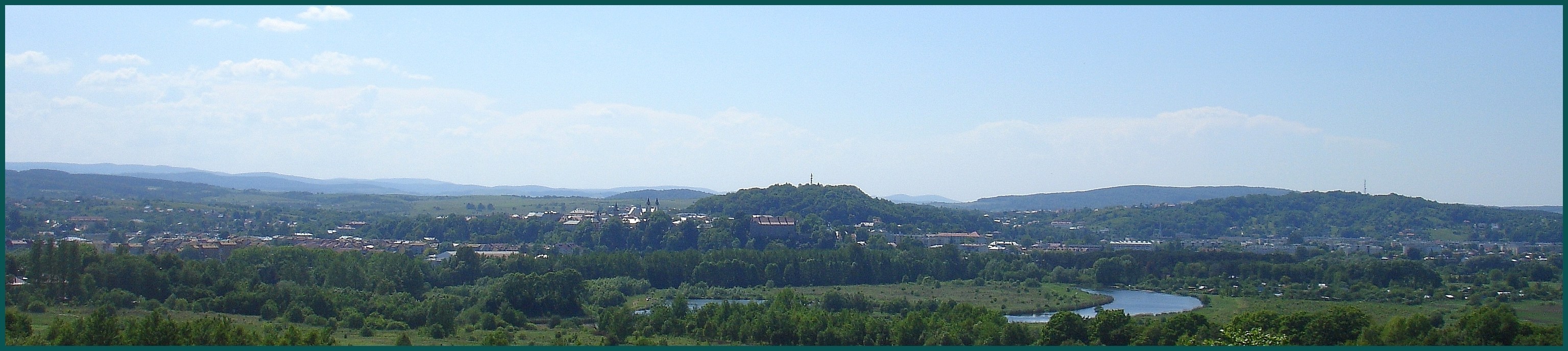 Sanok, view from east